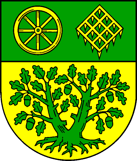 Coat of arms of the municipality Rickert in Schleswig-Holstein, Germany.